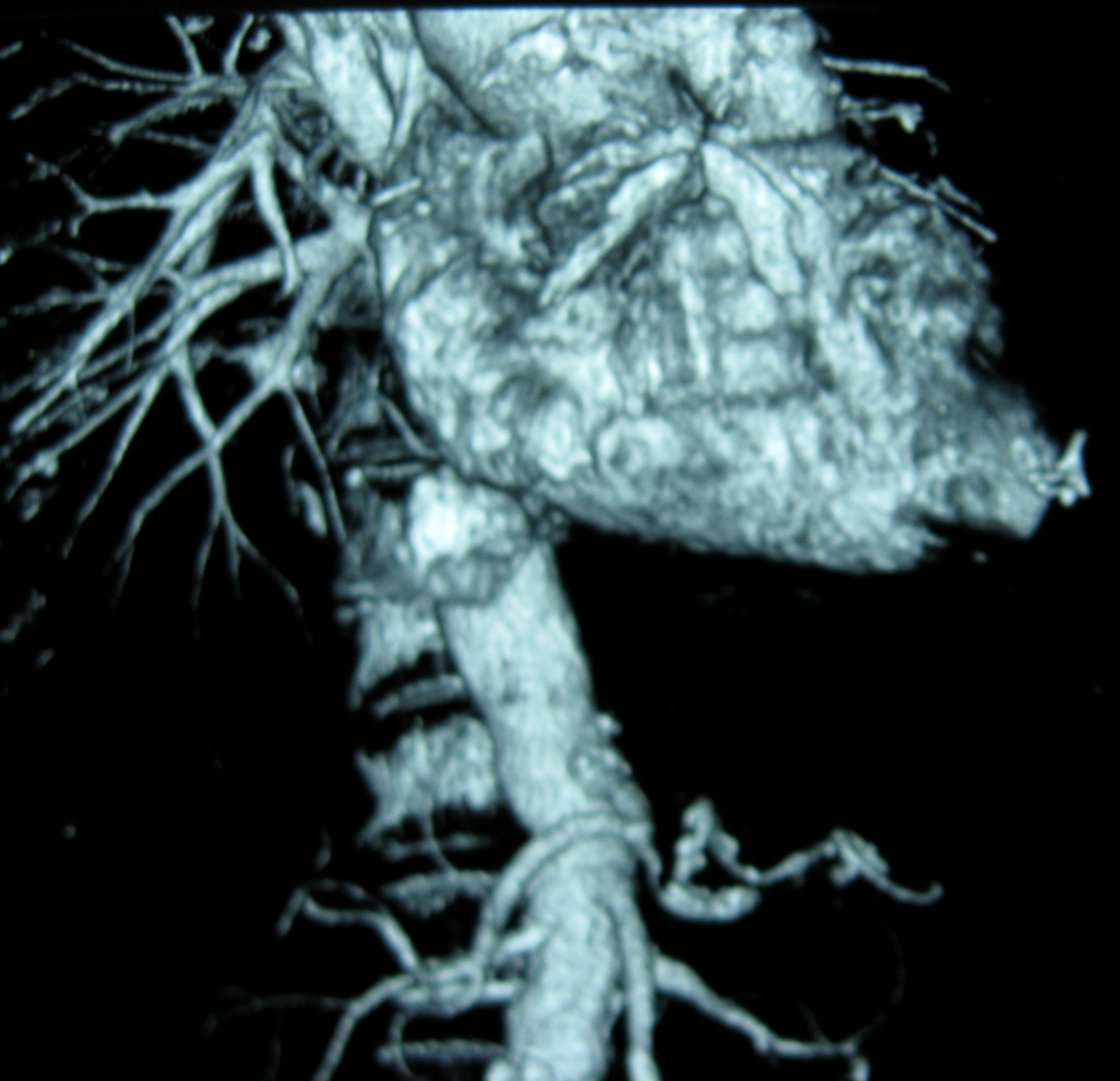 This is CT imaging an abdominal aortic aneurysm (AAA), 40,8 mm.